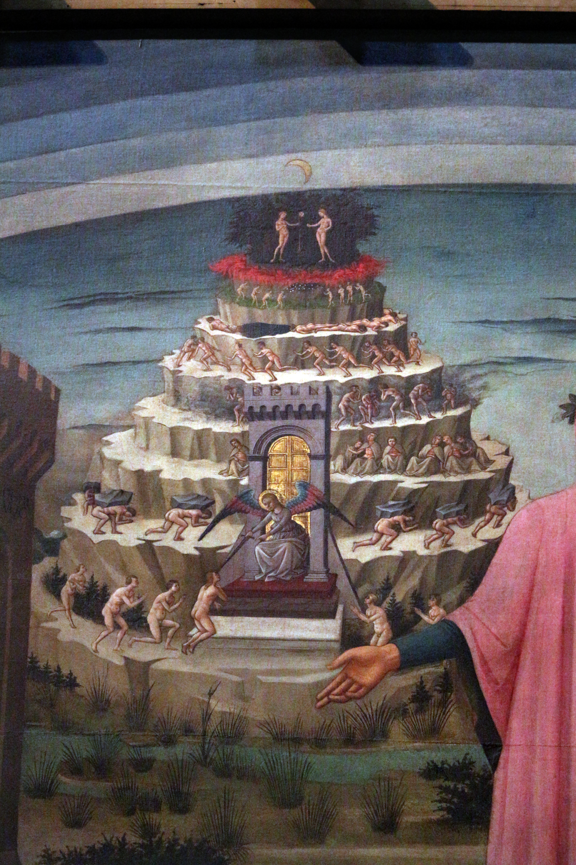 Dante and His Poem by Domenico di Michelino